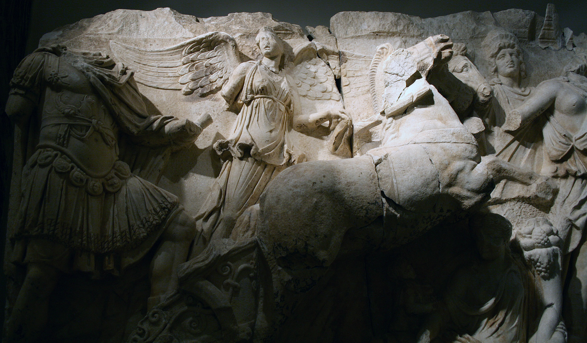 Relief from Ephesos (Ephesos-Museum, Hofburg, Vienna)